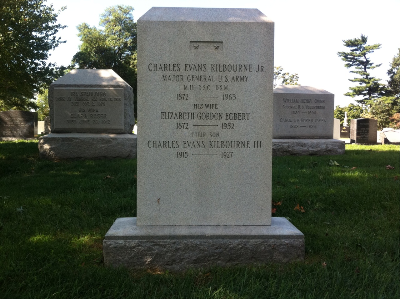 Grave marker for Charles E. Kilbourne at Arlington National Cemetery